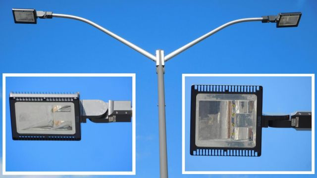 LROAD on Franklin Plaza, corner of Granite Street and Franklin Street, Braintree, Massachusetts